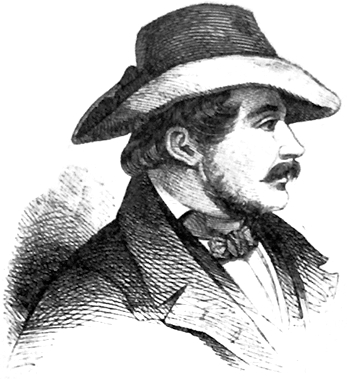 Portrait of the Wallachian poet and politician Ion Heliade Rădulescu.